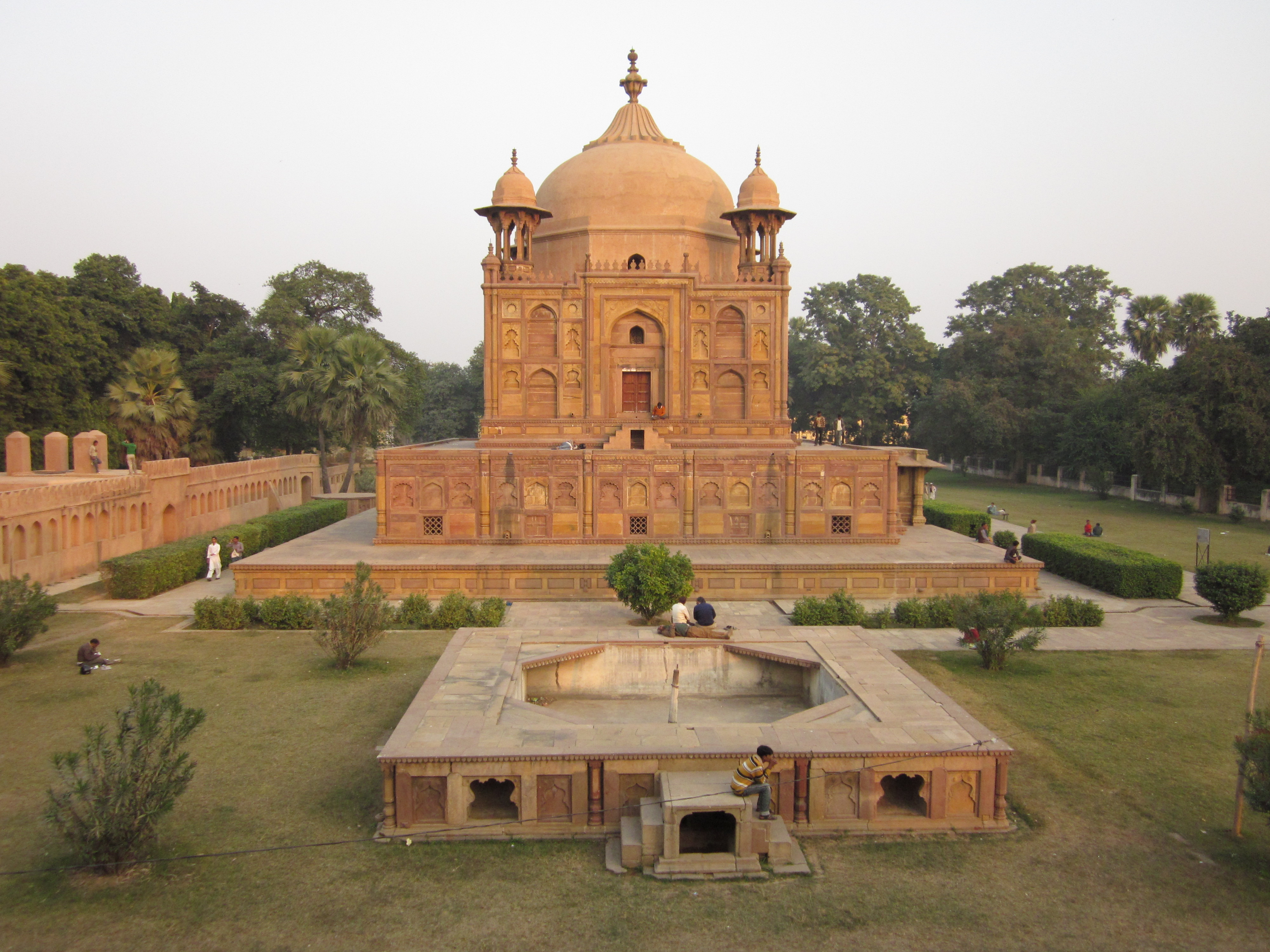 Tomb of Nithar , sister of Khusrau Mirza